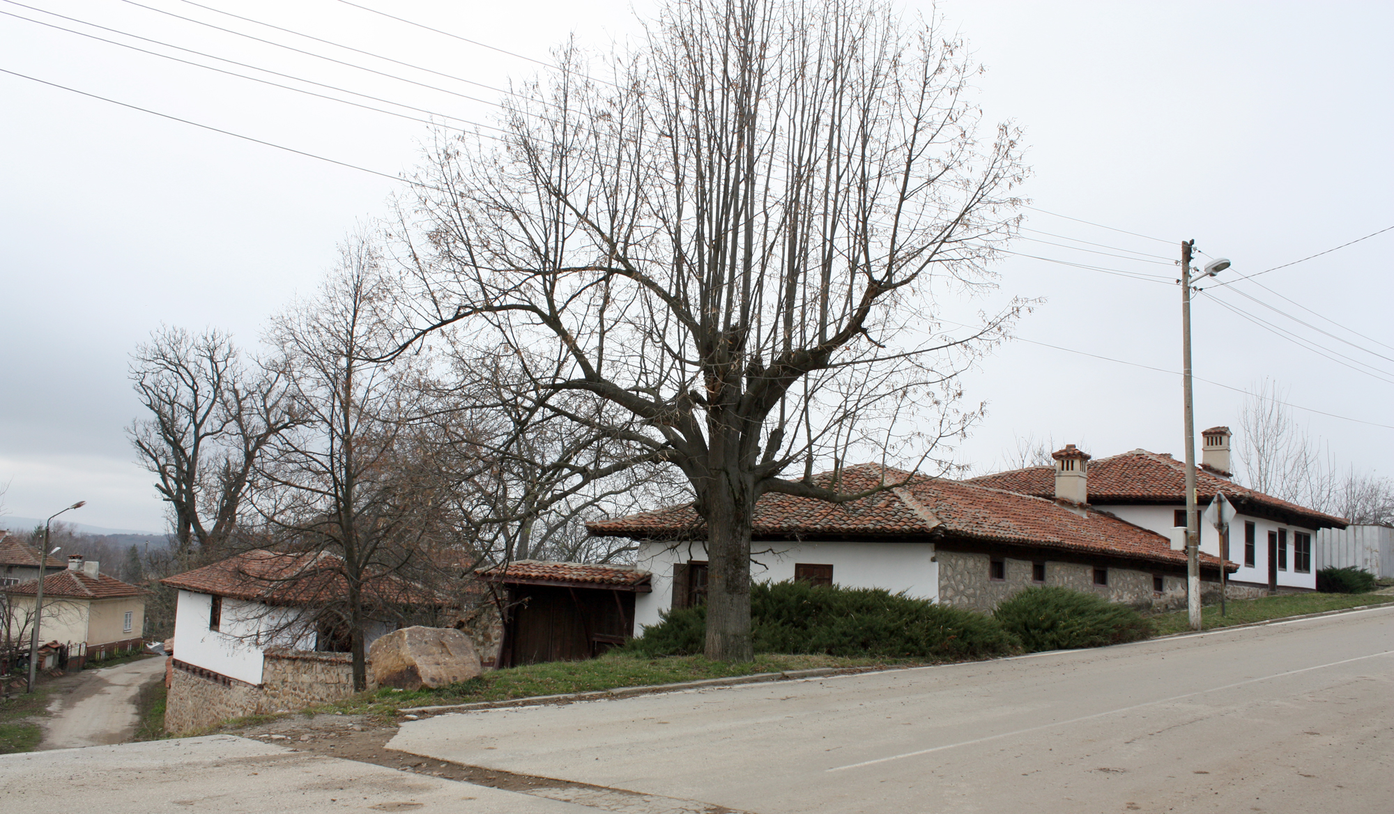 Elin Pelin's home in Baylovo, in which he lived from 1877 to 1949